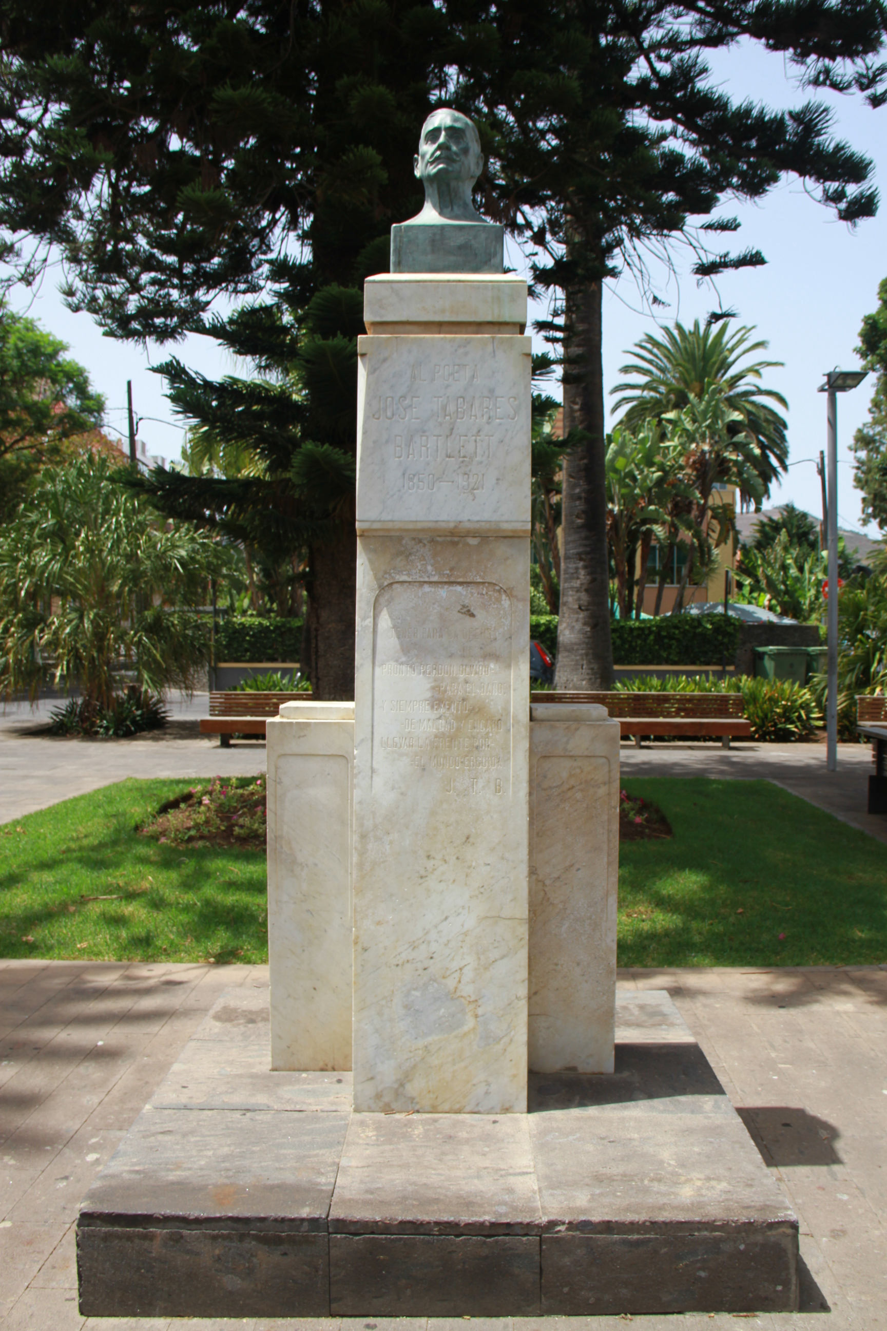 Bust of Jose Tabares Bartlett, 1850 - 1921, Plaza de la Junta Suprema in the historic old town of San Cristobal de La Laguna, San Cristóbal de La Laguna, La Laguna, Tenerife, Canary Islands, Spain